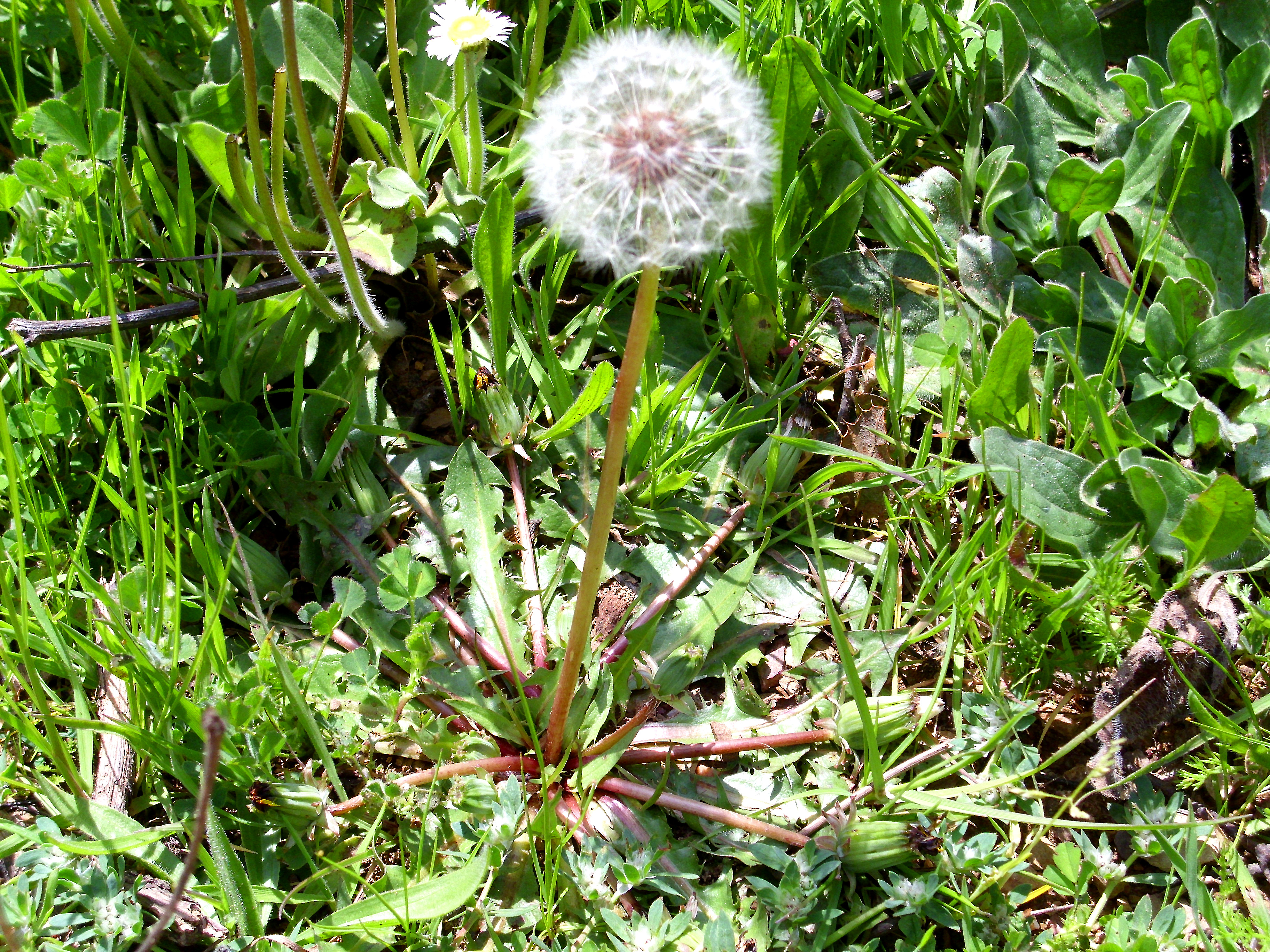 Taraxacum erythrospermum habit, Sierra Madrona, Spain